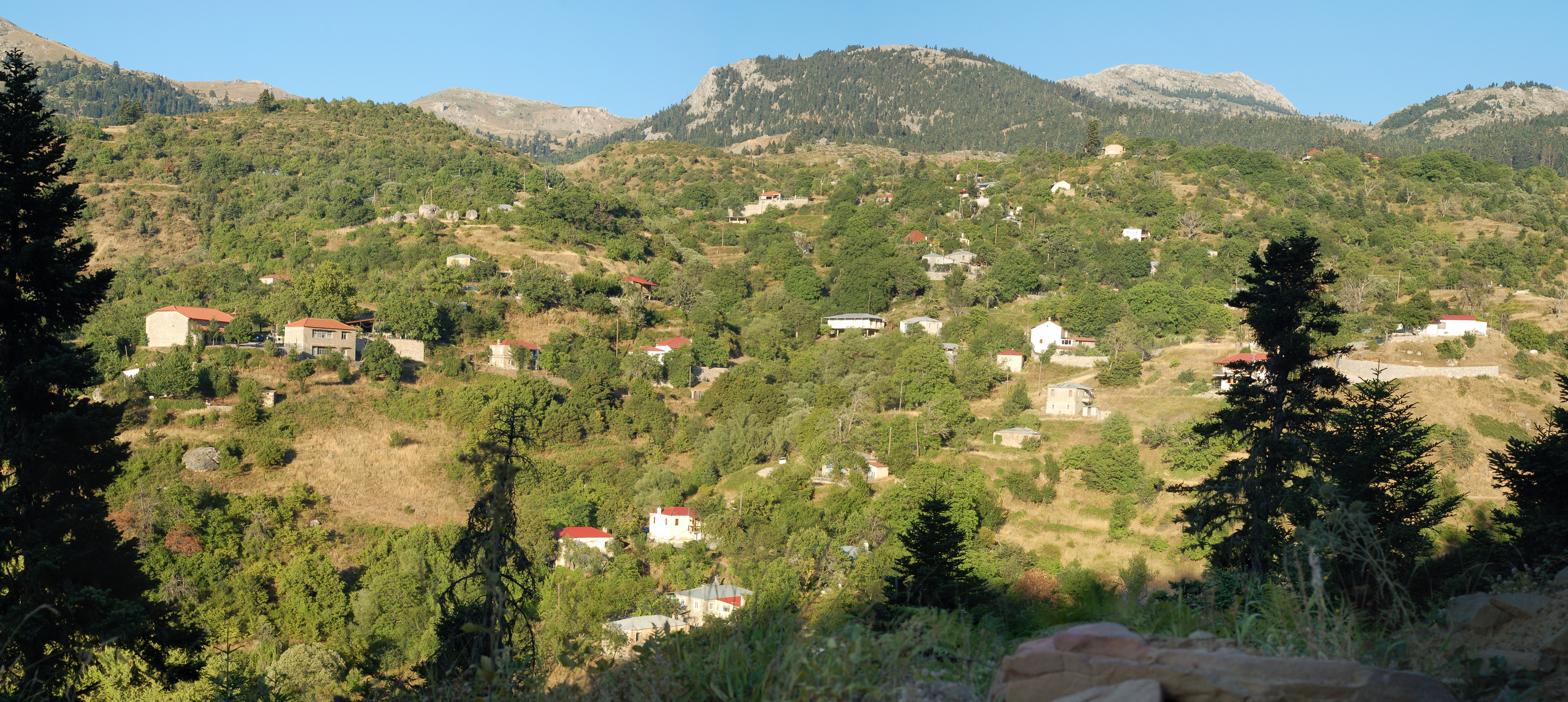 Partial view of Neohori village on Mount Oeta in Greece.